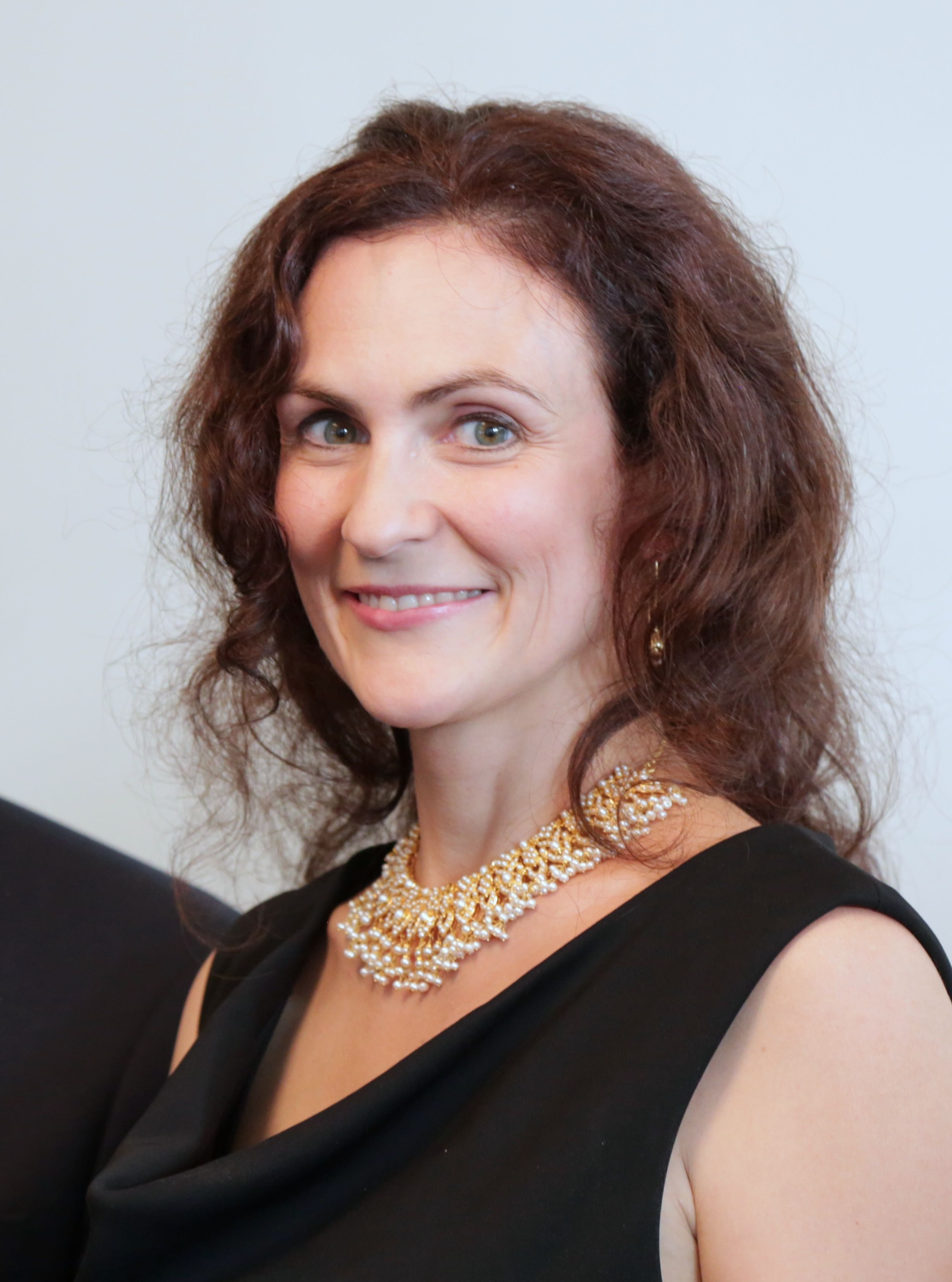 IPI Vice President Adam Lupel and Director of External Relations Mary Anne Feeney